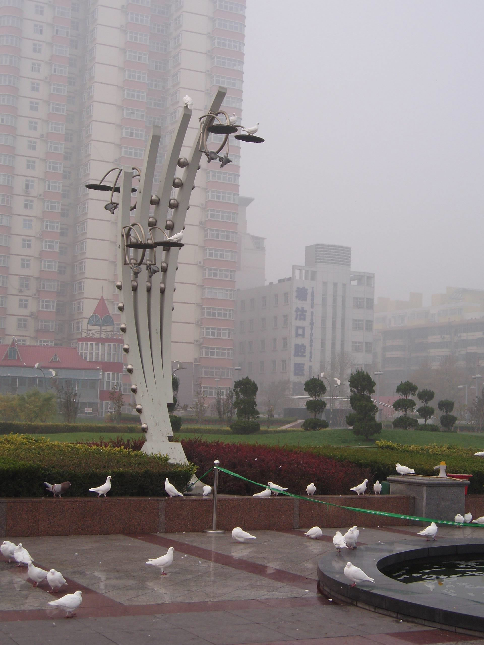 Tanggu Dstrict of Tianjin City, China